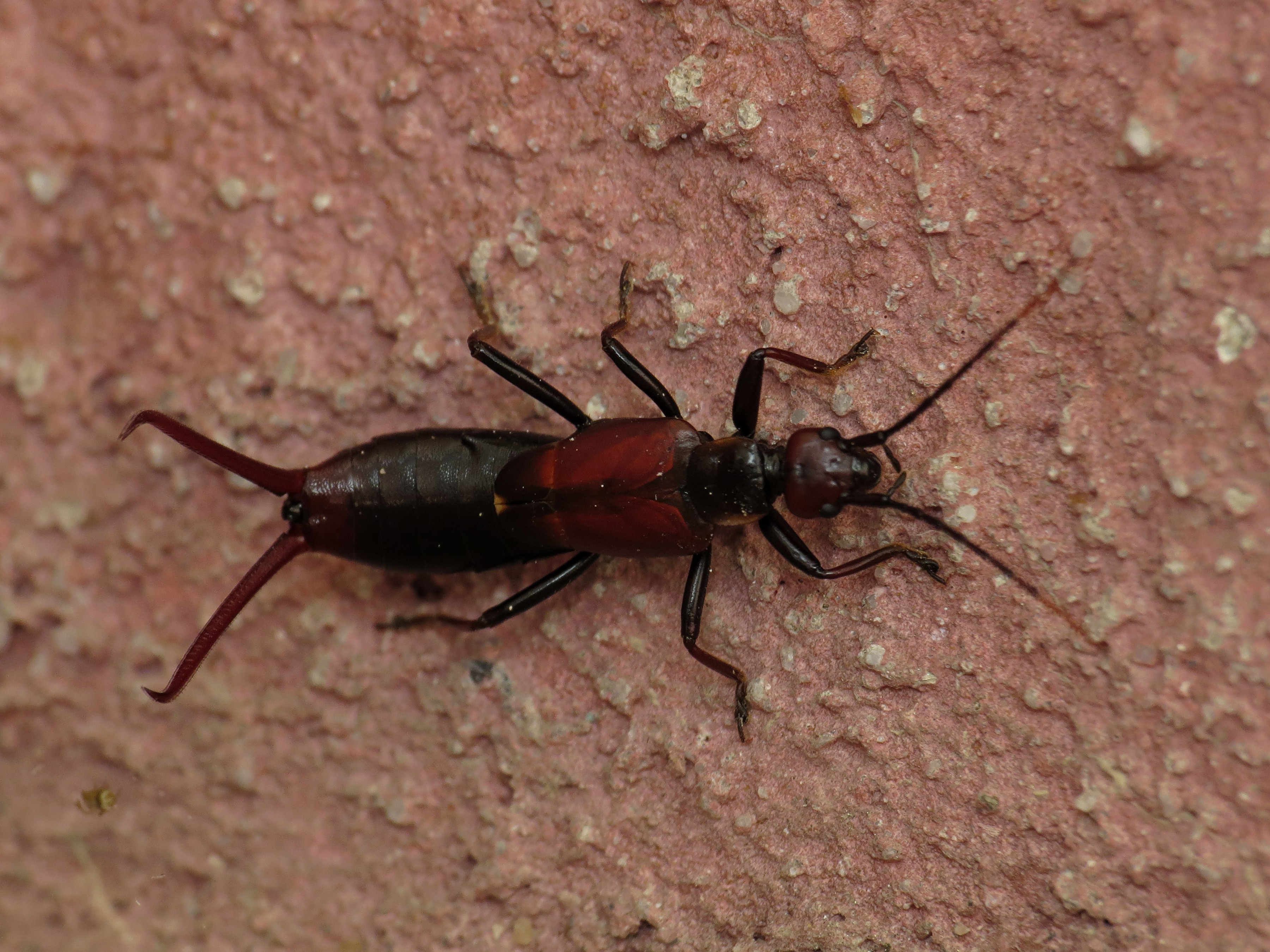 Timomenus komarowi (Semenov 1901), female, found with dead male on hotel balcony, Pyeongchang, South Korea, 11 October 2014